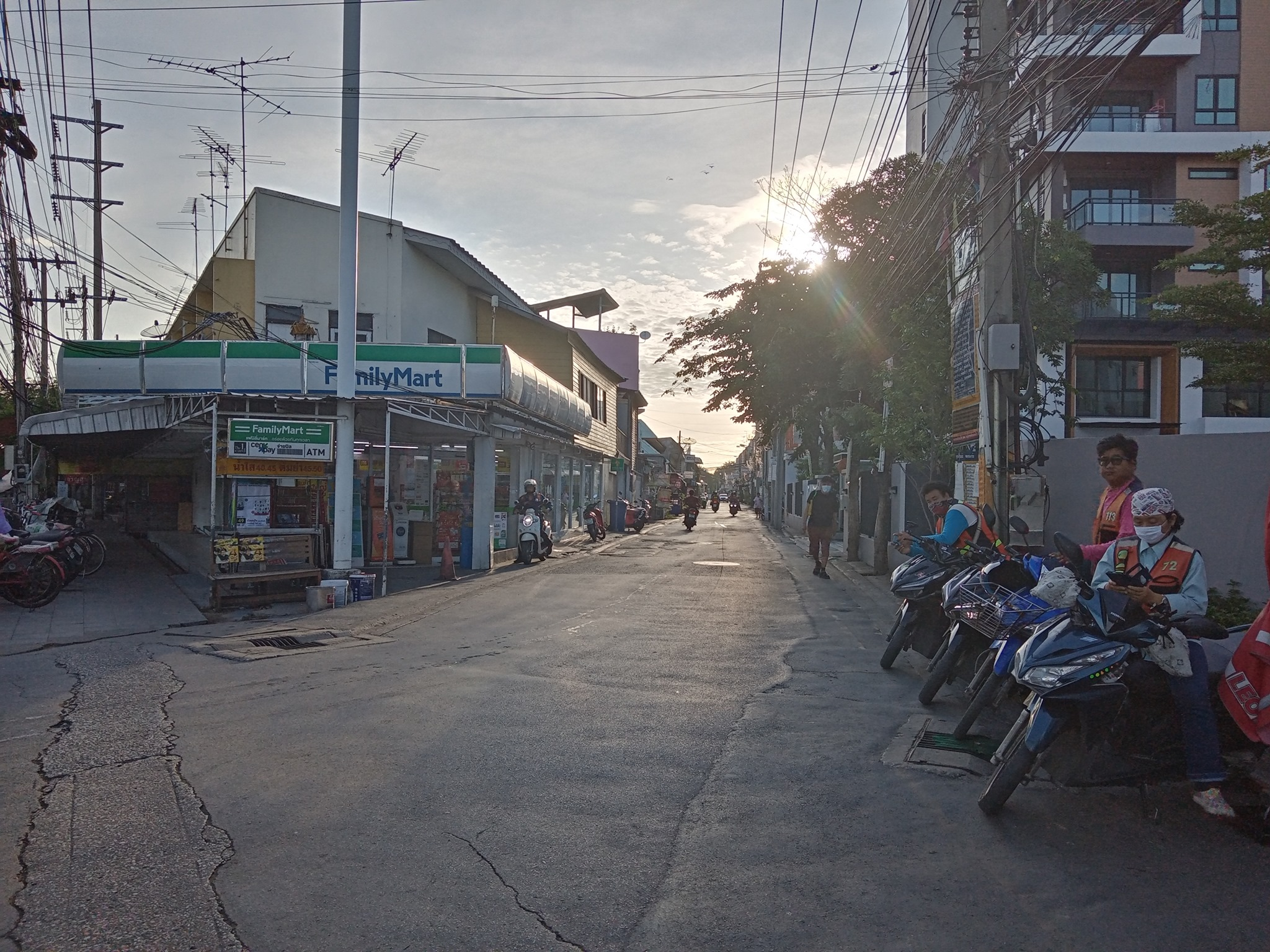 Soi Phahonyothin 54, Sai Mai, BKK.